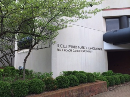 The Ben F Roach Cancer Care Facility